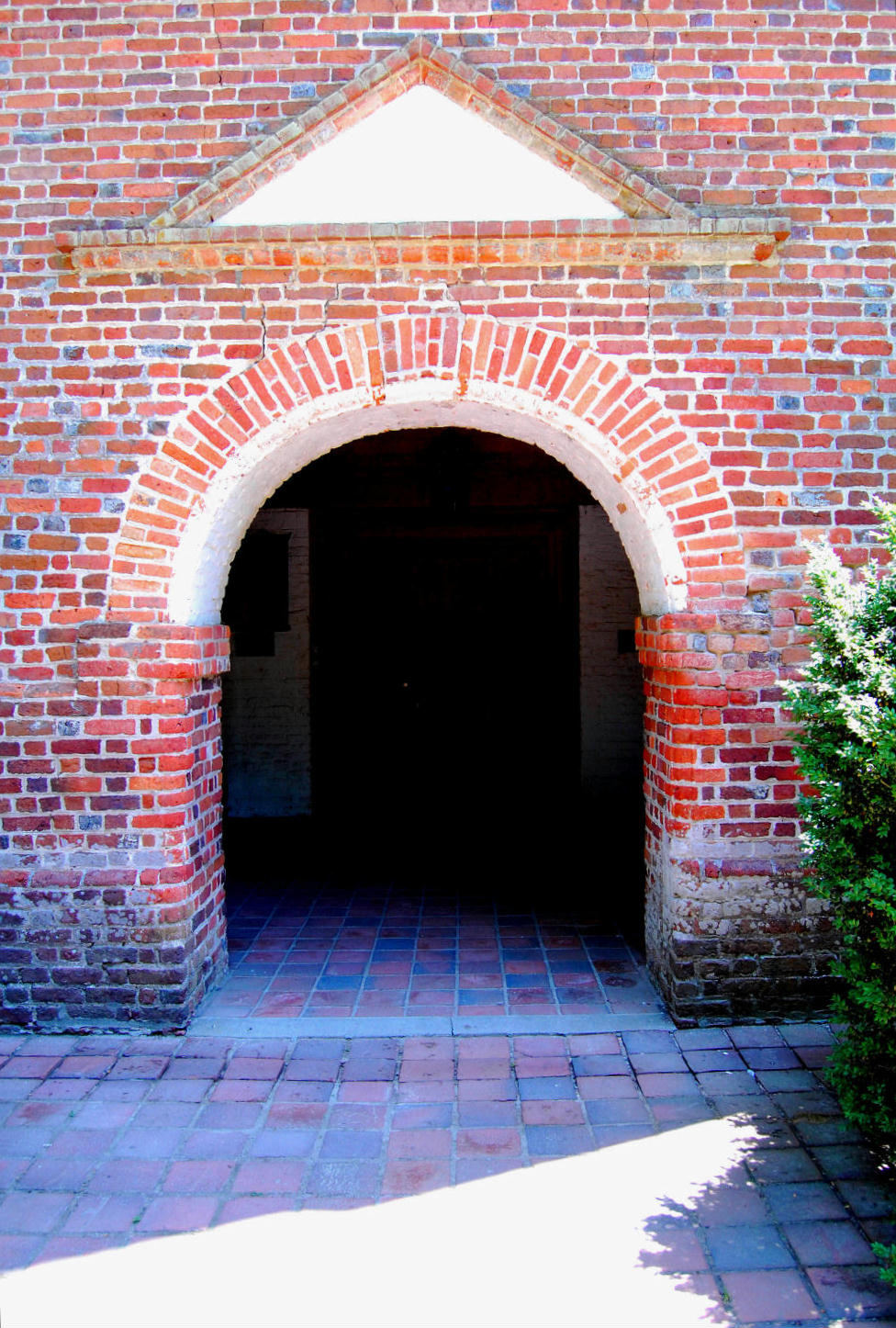 David King, Newport Parish Church West Doorway